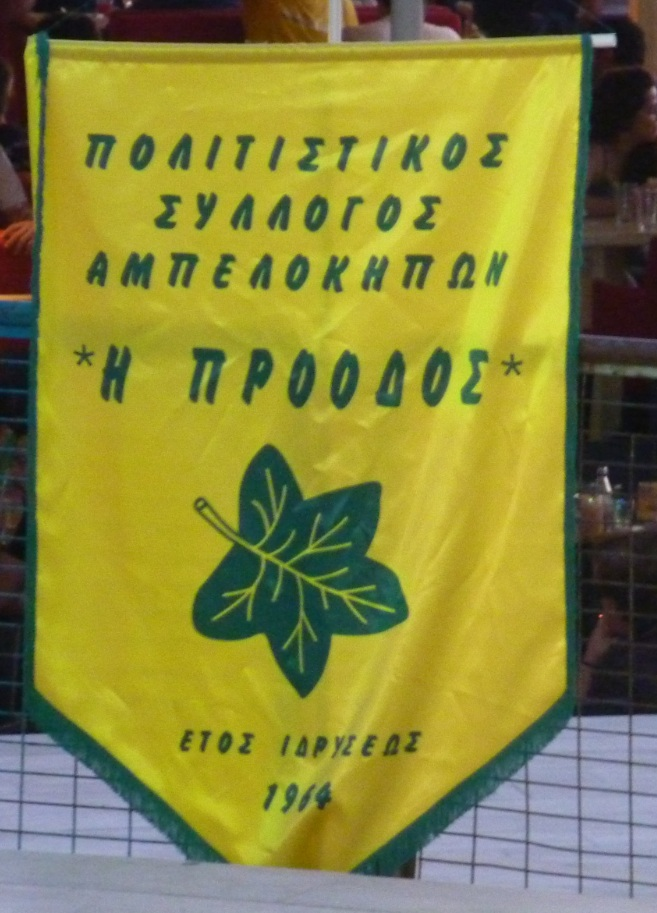 The banner of the Cultural Association of Ampelokipoi Patras "Proodos" during a dance performance at Theatraki in the Marina of Patras.